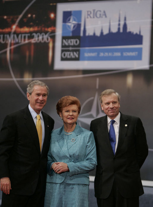 President George W. Bush stands with President Vaira Vike-Freiberga of Latvia, and NATO Secretary General Jaap de Hoop Scheffer during a photo opportunity Wednesday, Nov. 29, 2006, at the start of the 2006 NATO Summit in Riga, Latvia. White House photo by Paul Morse